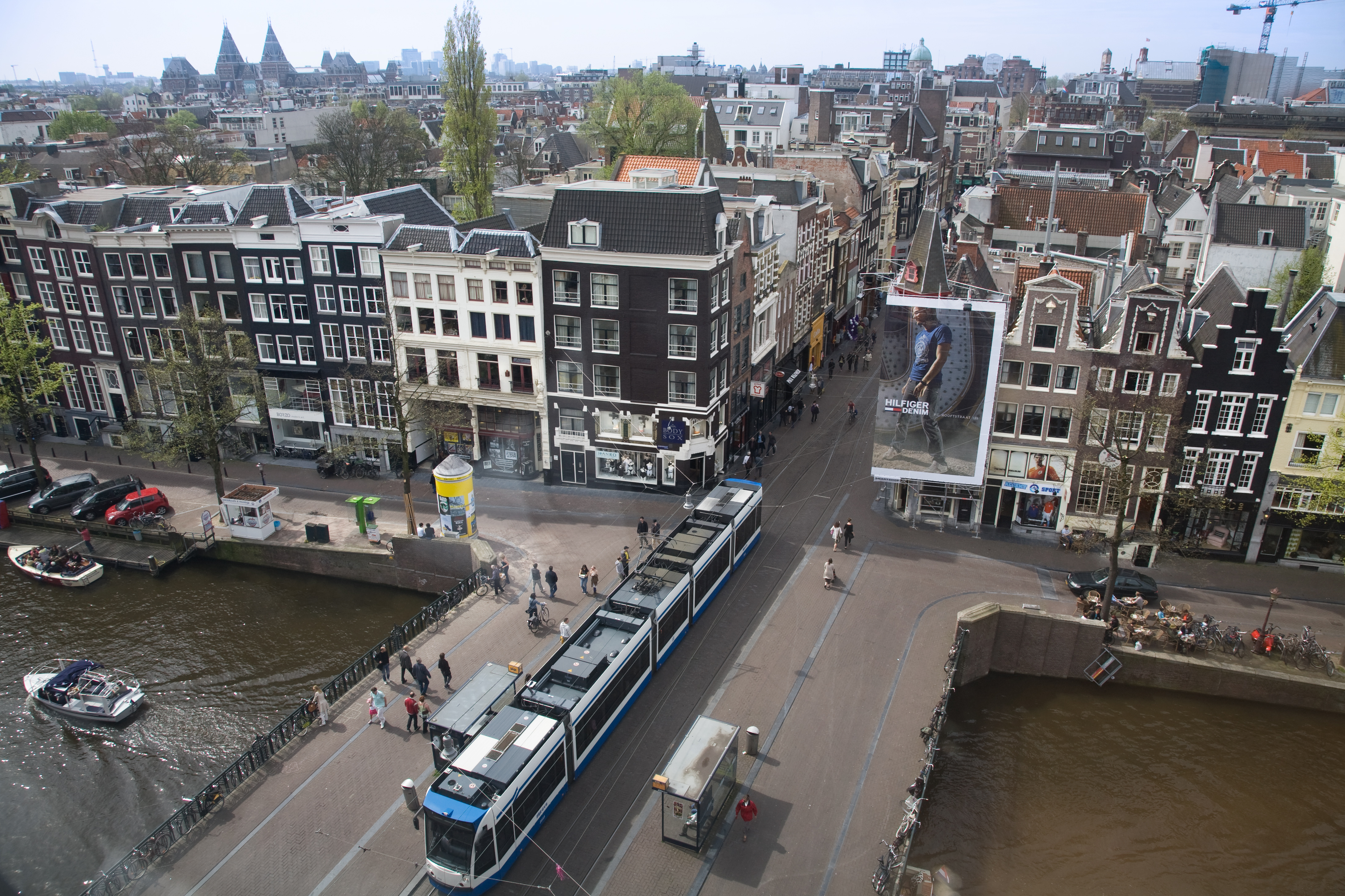 View from the Metz & Co. Metz & Co. Department Store Rooftop Cafe of the Keizersgracht / Leidsestraat, Amsterdam, The Netherlands